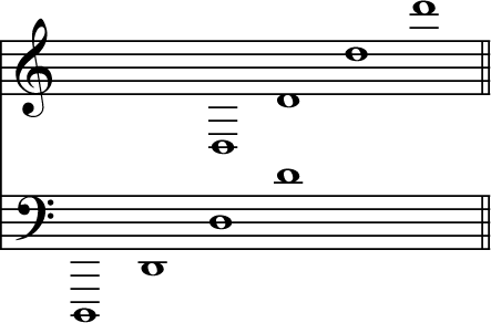 Notes, D